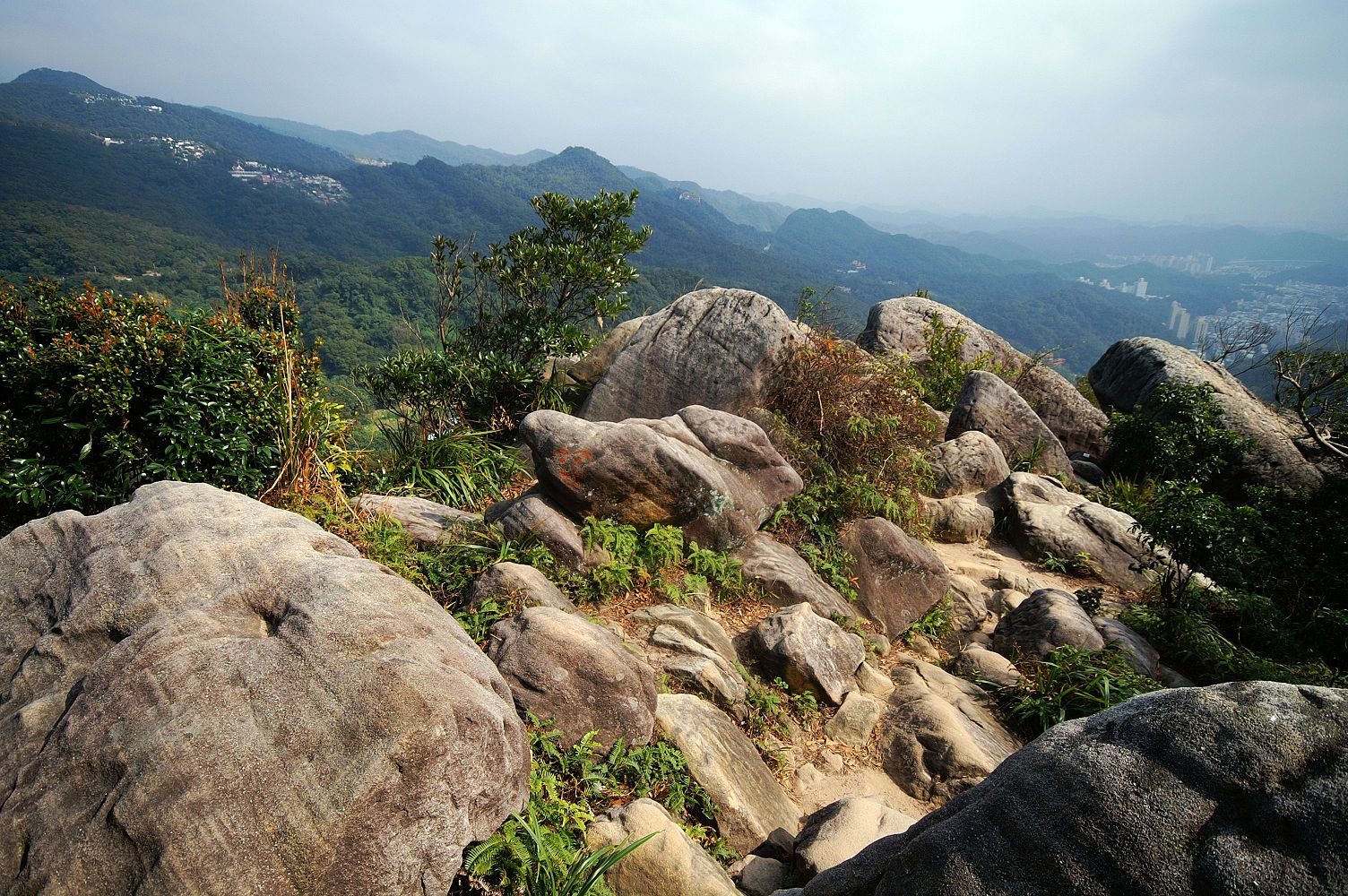 Qing Dynasty Quarry, Neihu, Taipei, Taiwan